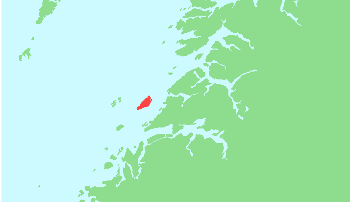 Locator map of Landegode, Nordland, Norway